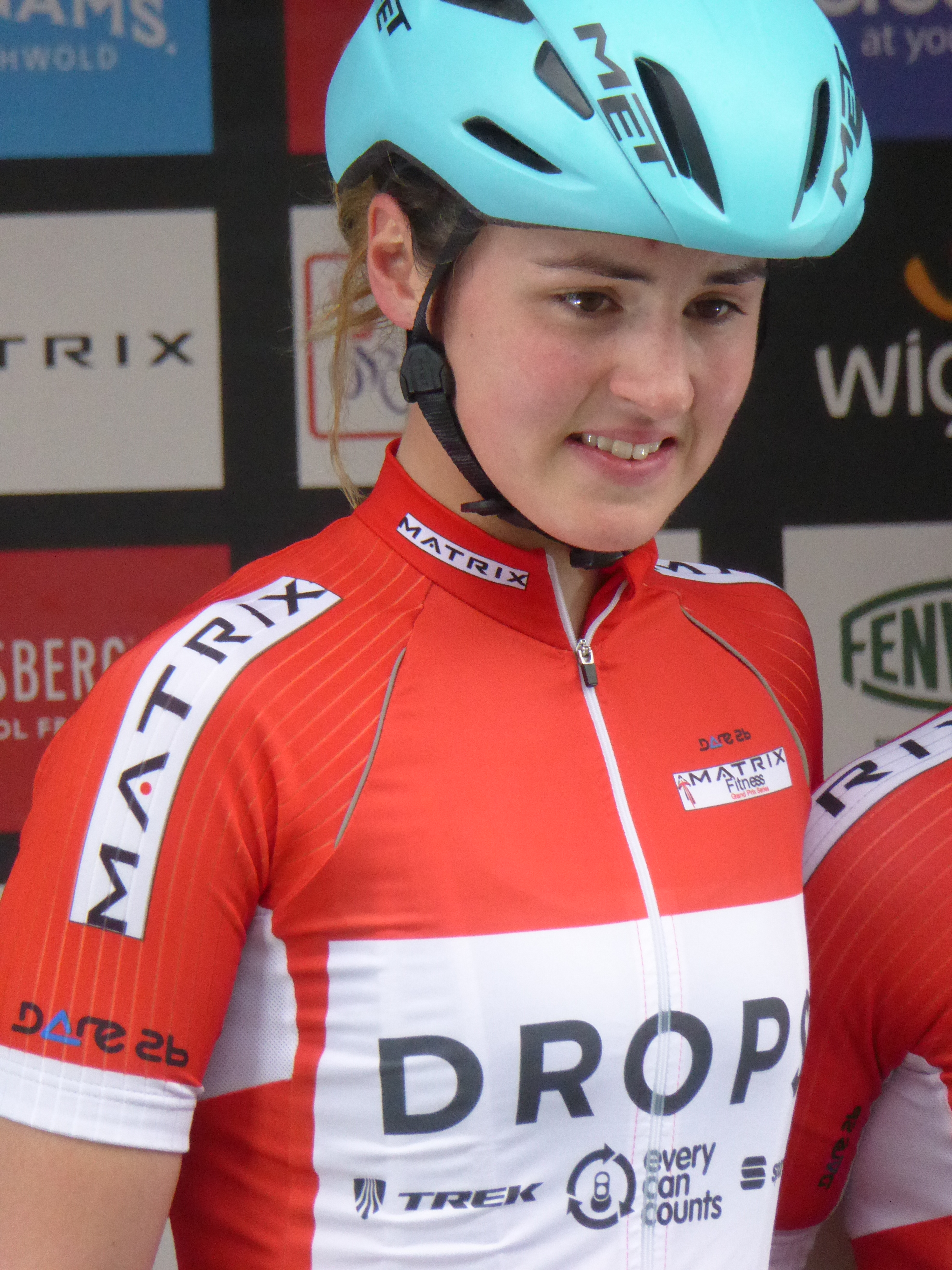 Annasley Park (Drops), prior to Round 7 of the Matrix Fitness GP Series in Motherwell, on 23 May 2017.